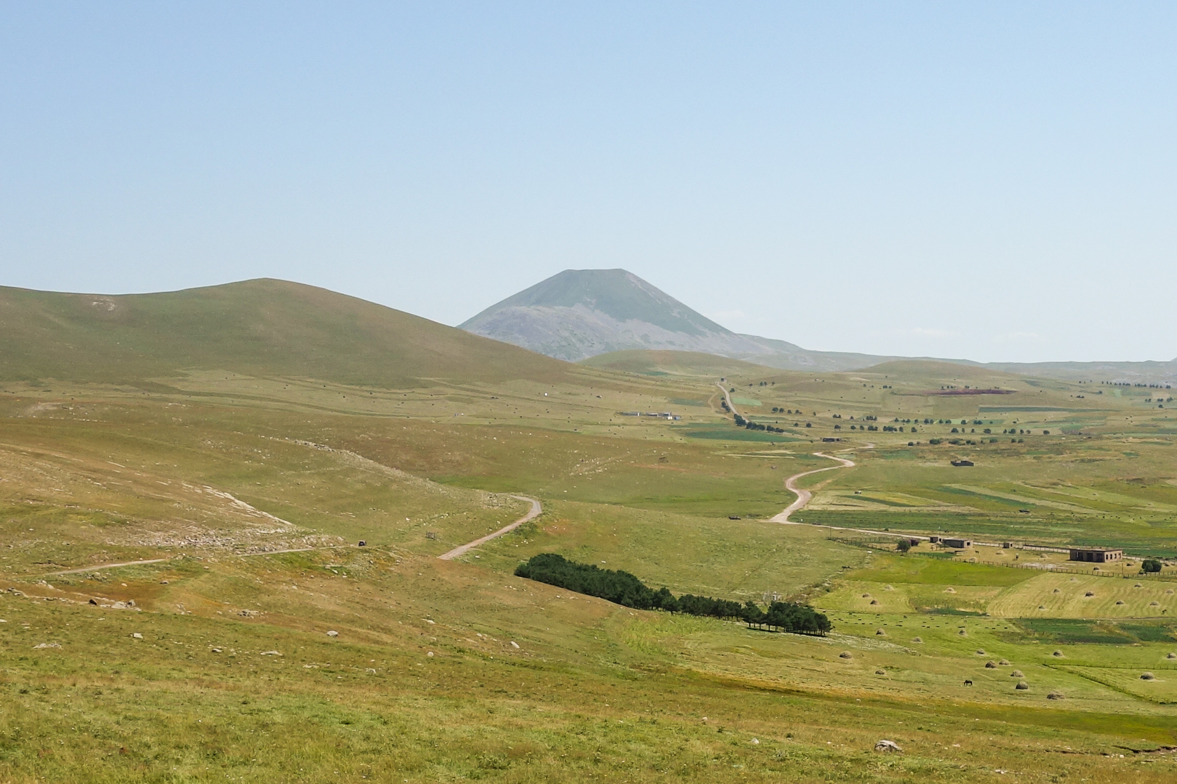 Mount Tavkvetili, view from Tabatskuri village, Samtskhe-Javakheti, Georgia